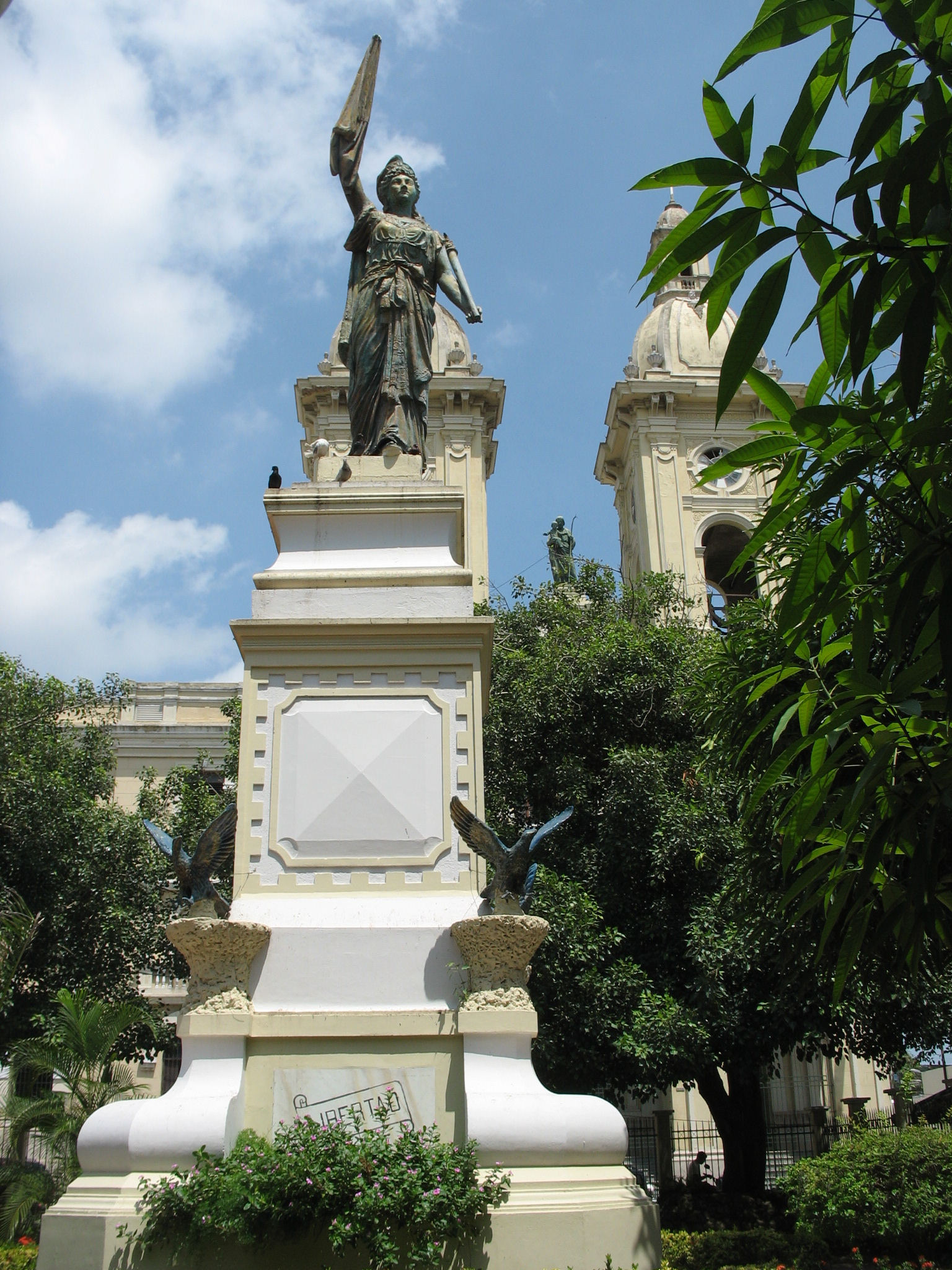 Barranquilla - Statue of Liberty.